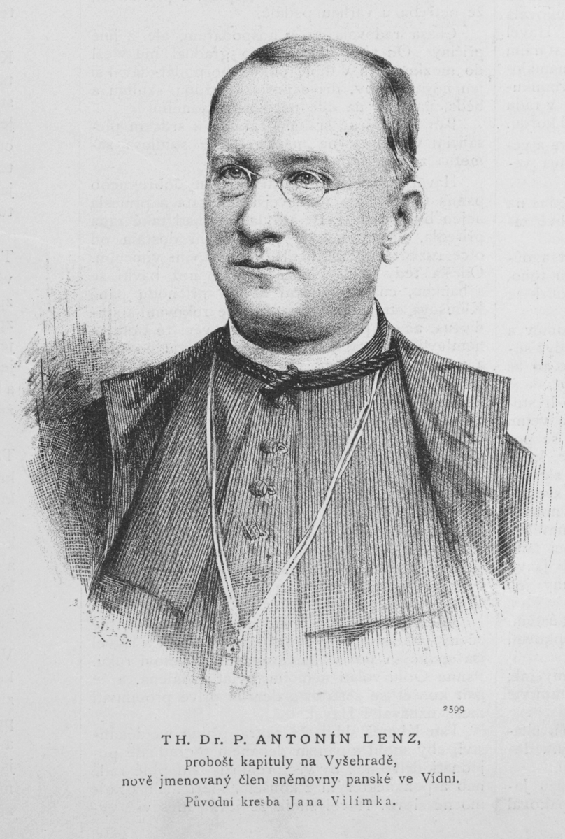 Portrait of Antonín Lenz (1829-1901), Czech Catholic priest and theologian